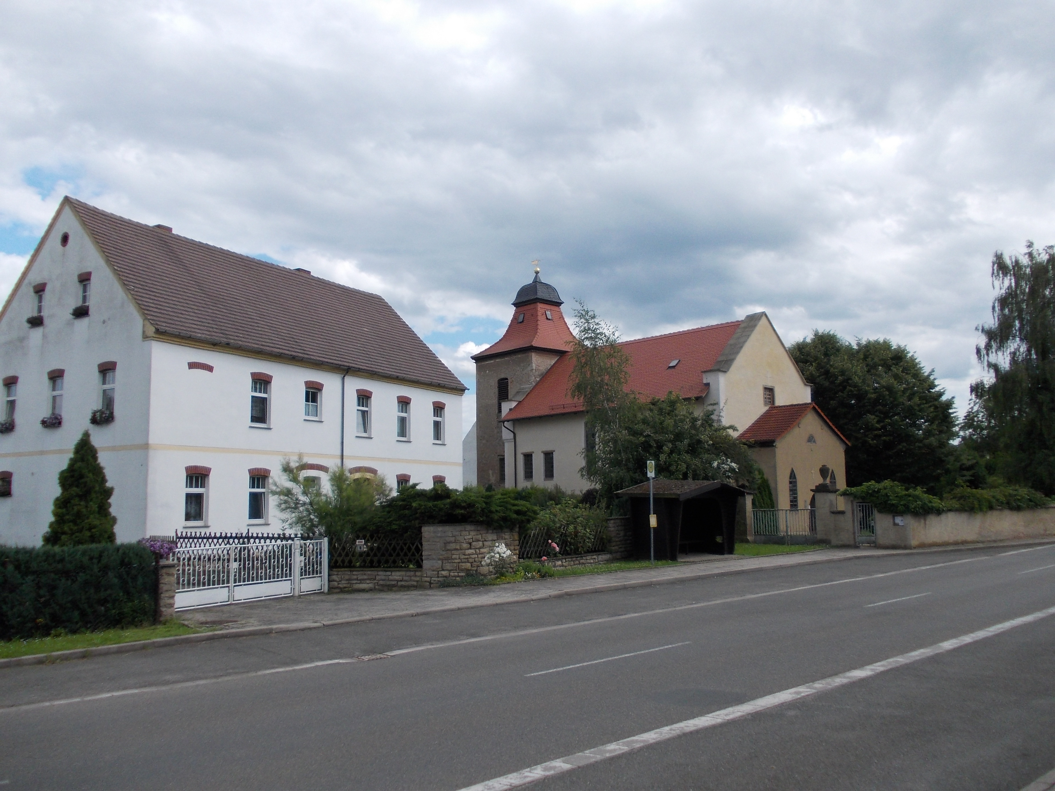 Ostrau church (Elsteraue, district of Burgenlandkreis, Saxony-Anhalt)